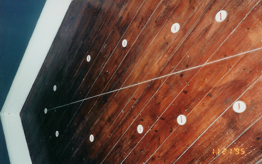 Grahamstown, South Africa: Observatory Museum - Analemma in the Galpin MeridianLine room